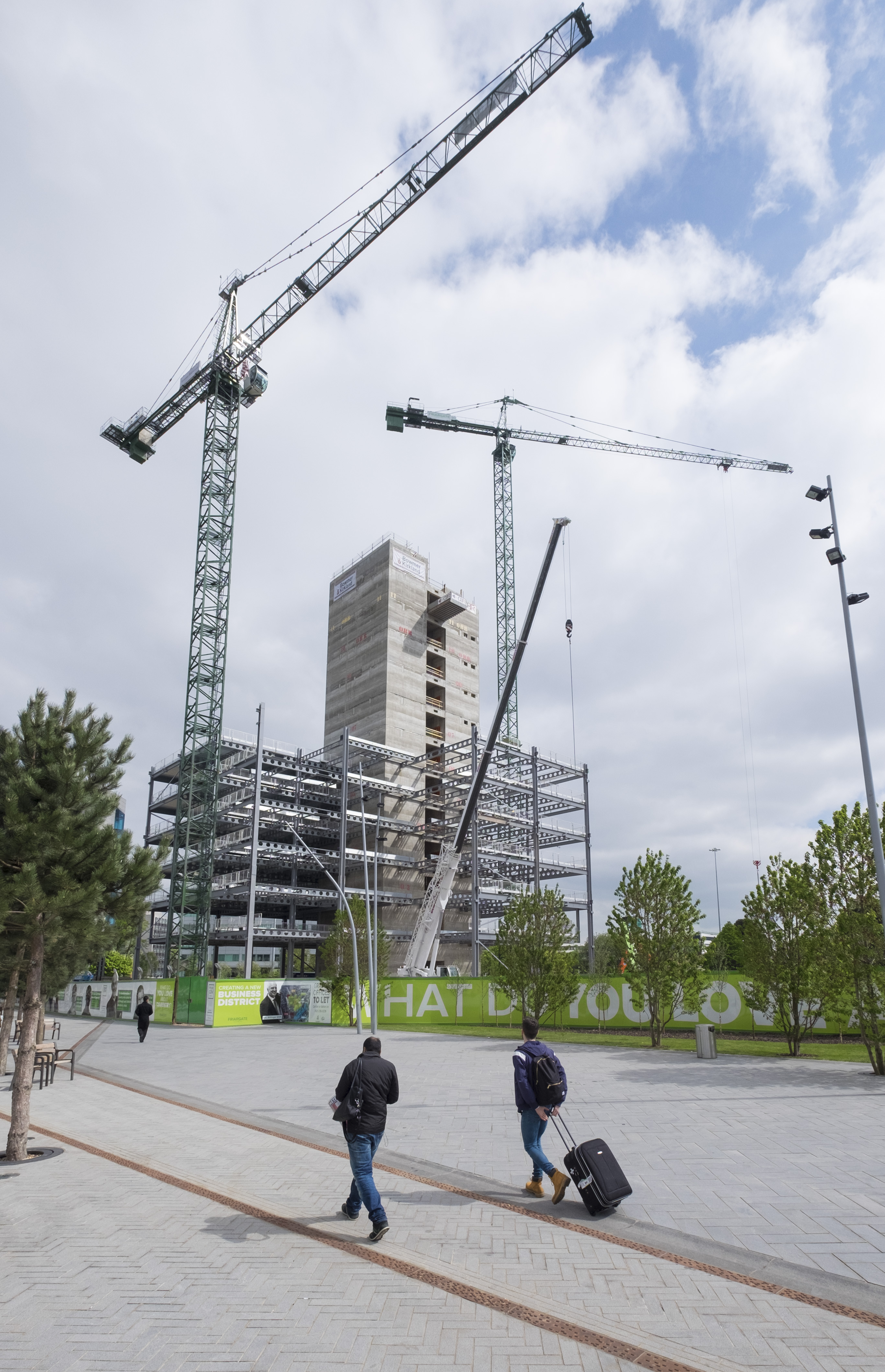 One Friargate under construction, scheduled for completion in 2017